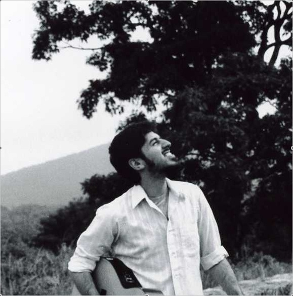 Y. Misdaq